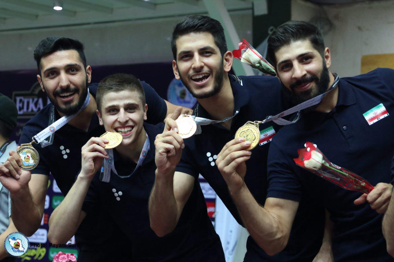 ارتش های جهان